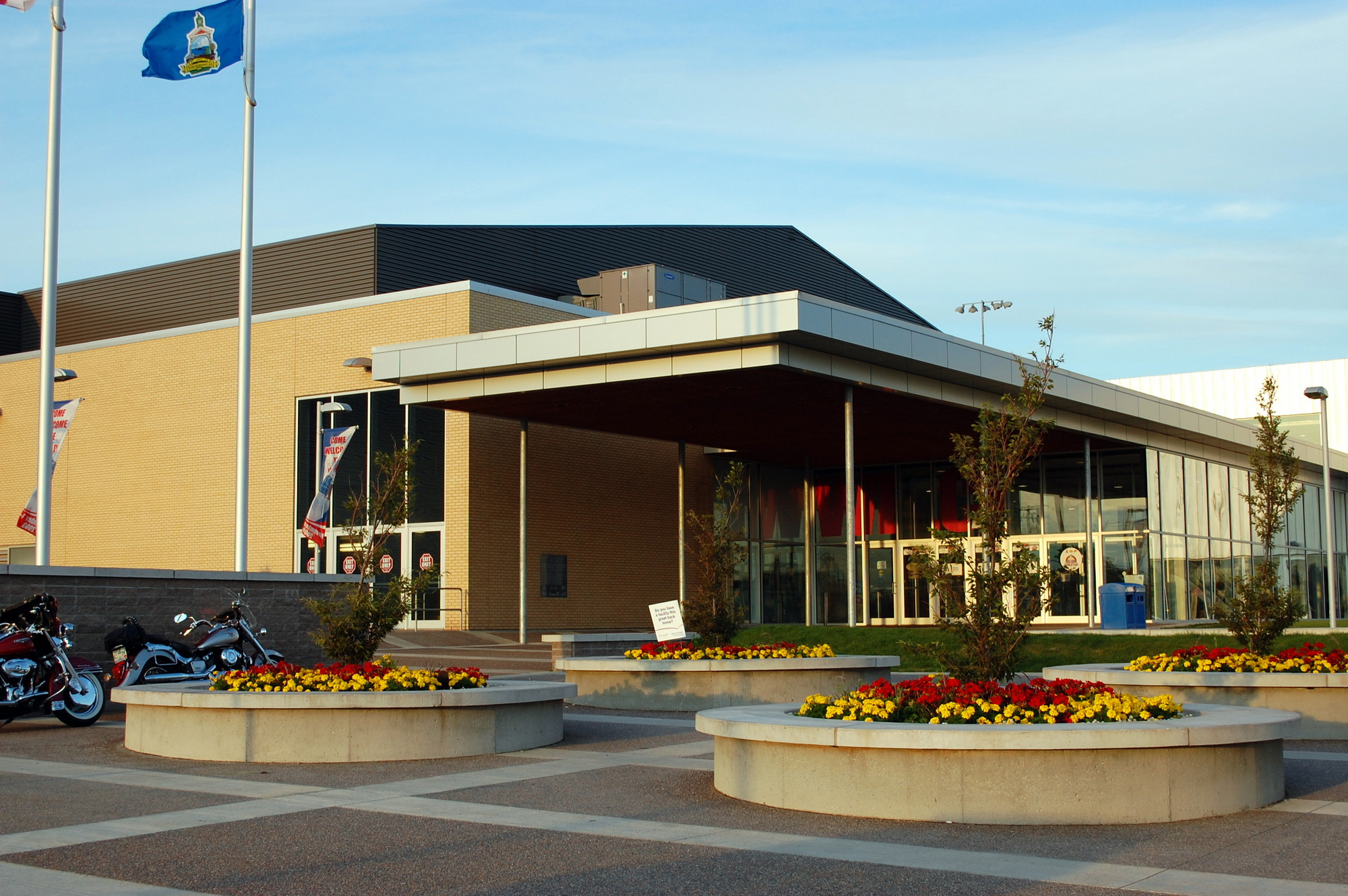 Credit Union Place (formerly the Summerside Wellness Centre), a community centre in Summerside, Prince Edward Island.